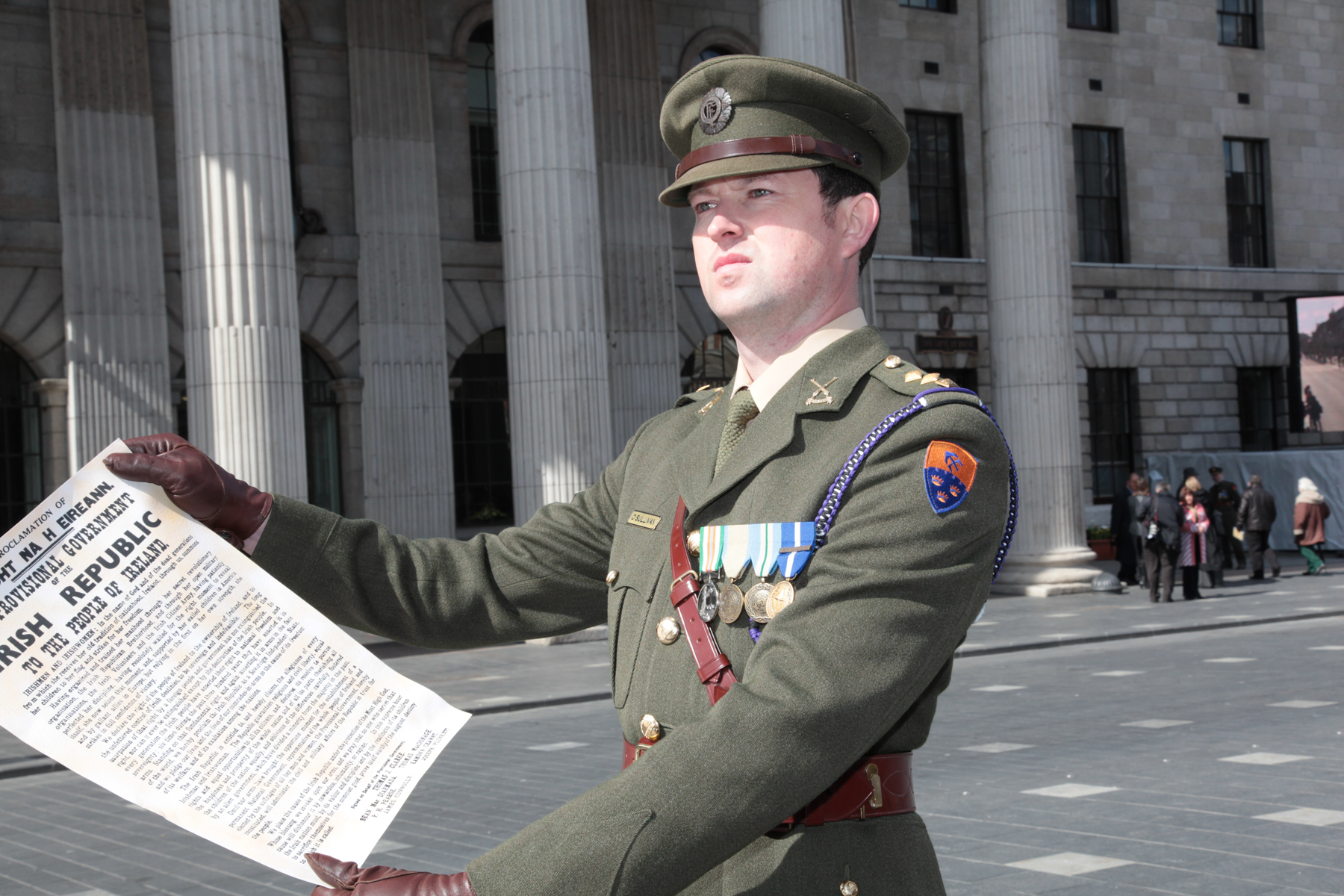 Capt Eoin O Sullivan reads the Proclamation outside the GPO on Easter Sunday 2010